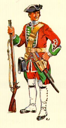 Painting of a Private, 1737-1749, of Oglethorpe's Regiment of Foot (The "Old 42nd").